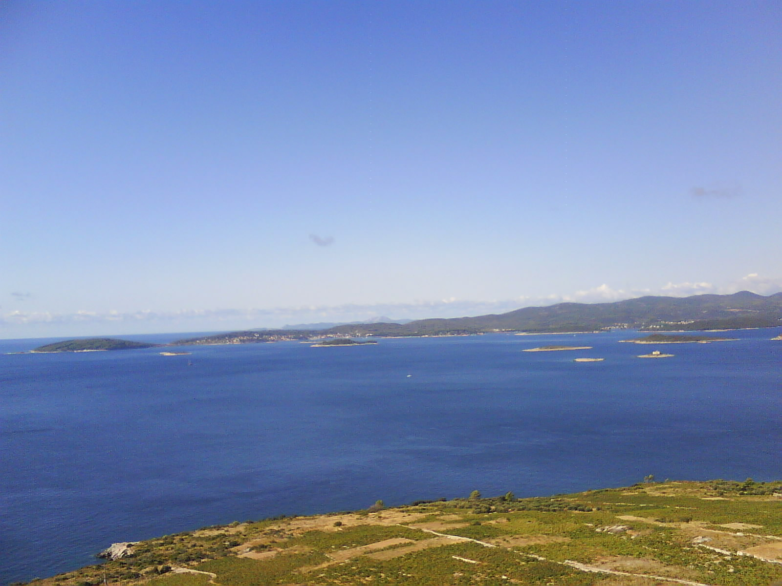 A Pelješac channel landscape from Pelješac peninsula